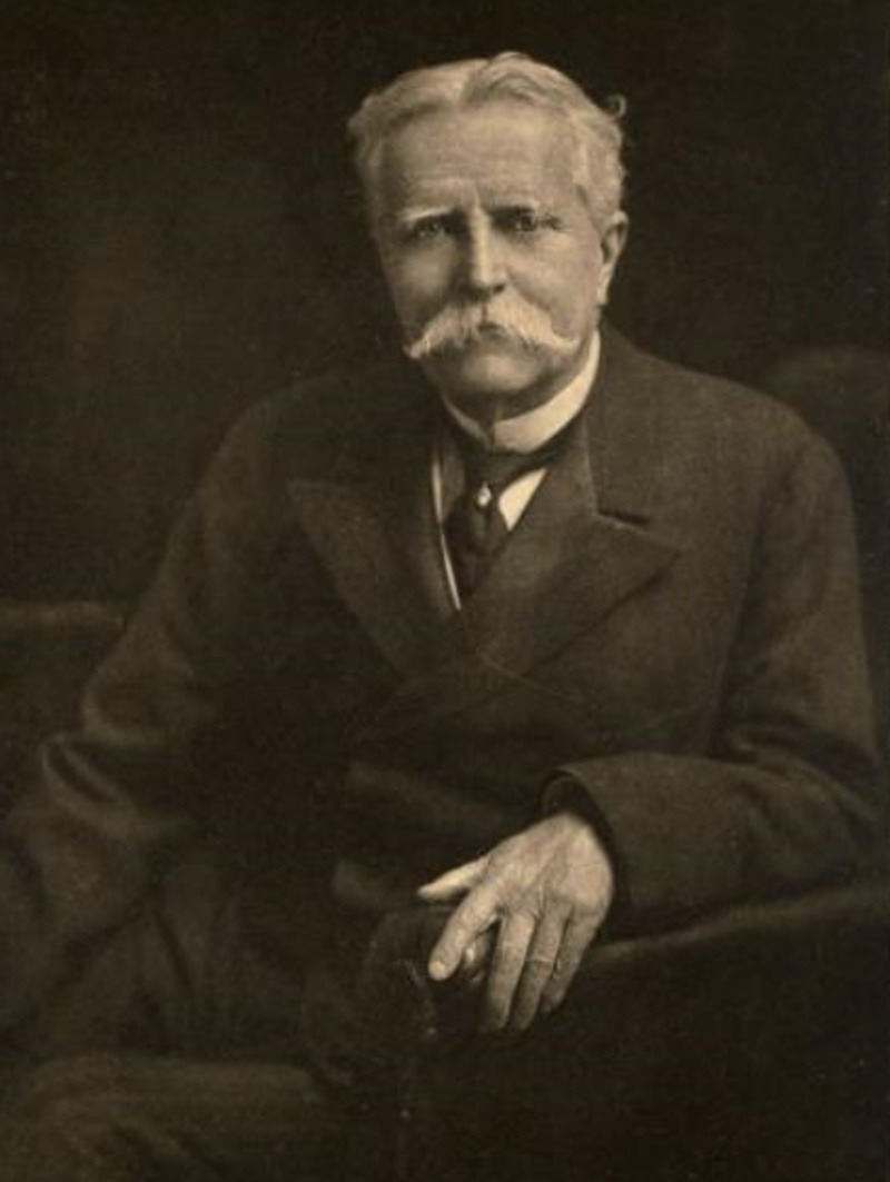 Algernon Bertram Freeman Mitford, 1st Baron Redesdale